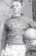 Millwall Football Club Kit (uniform) from 1885